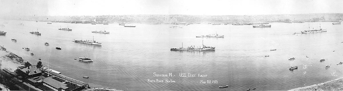 United States Navy Destroyer Squadron 14 In the North River, off New York City, 20 May 1921. Panoramic photograph by Himmel and Tyner, New York. U.S. Navy ships present are (from left to right): USS Cummings (DD-44) USS Wainwright (DD-62) USS Parker (DD-48) USS Balch (DD-50) USS McDougal (DD-54) USS Ericsson (DD-56) and USS Dixie (AD-1), squadron flagship. Note what appears to be a yacht club in the lower left.